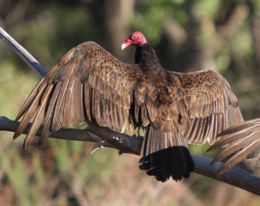 Turkey vulture catching the morning sun at Bluff UT